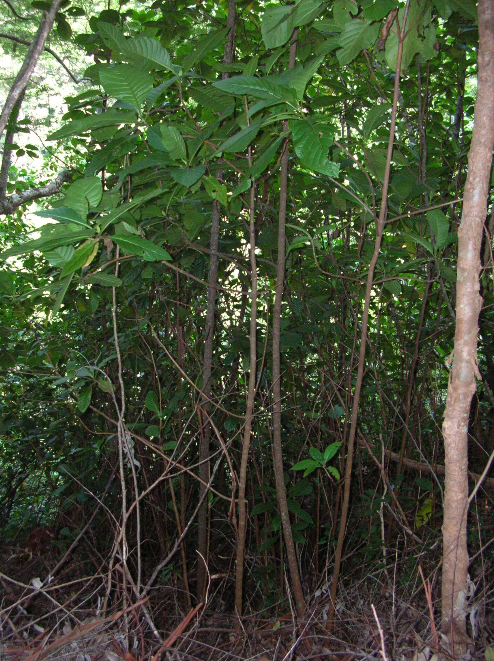 Cinchona pubescens (habit). Location: Maui, Makawao Forest Reserve